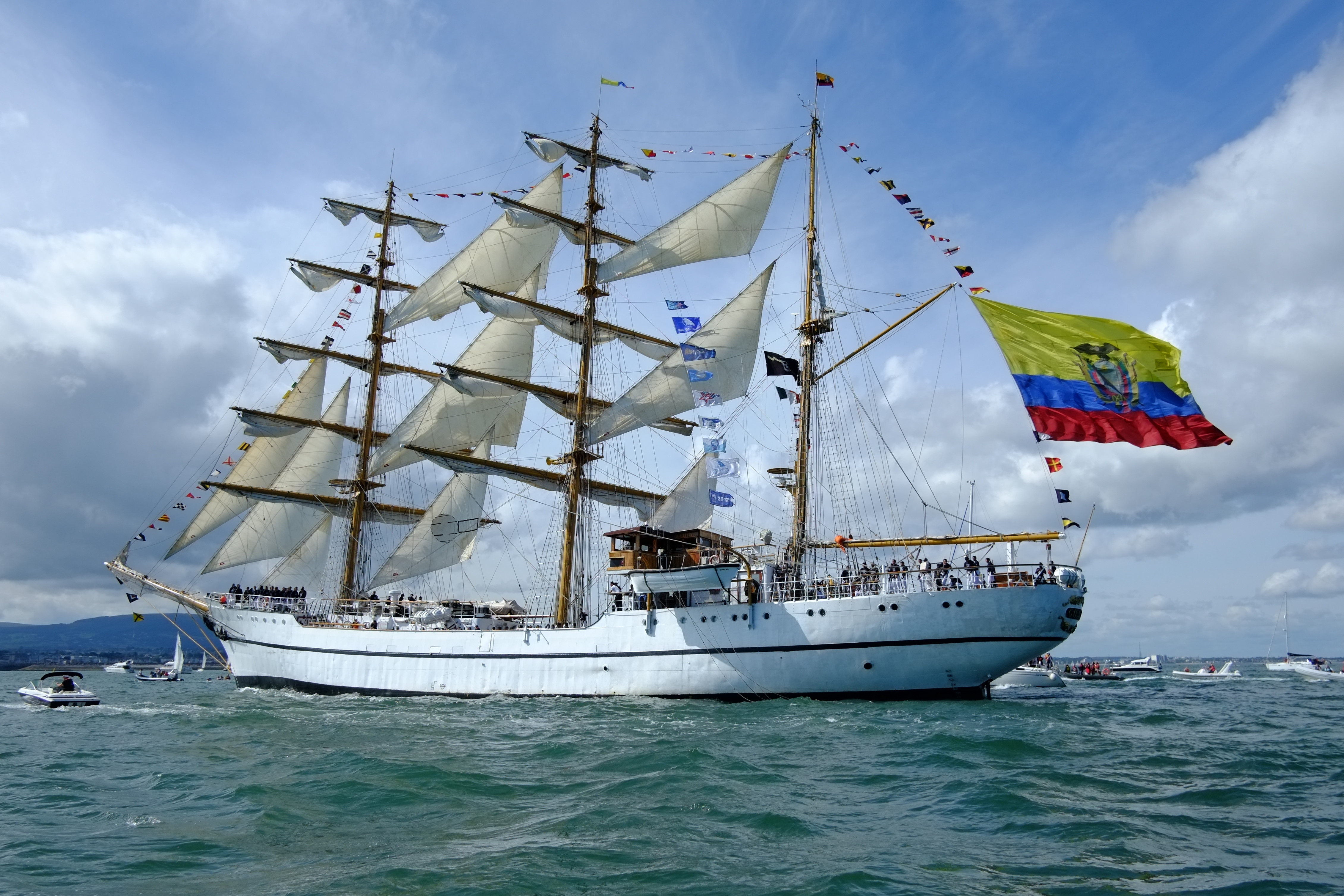 Guayas in Dublin Bay. Tall Ships Races 2012.